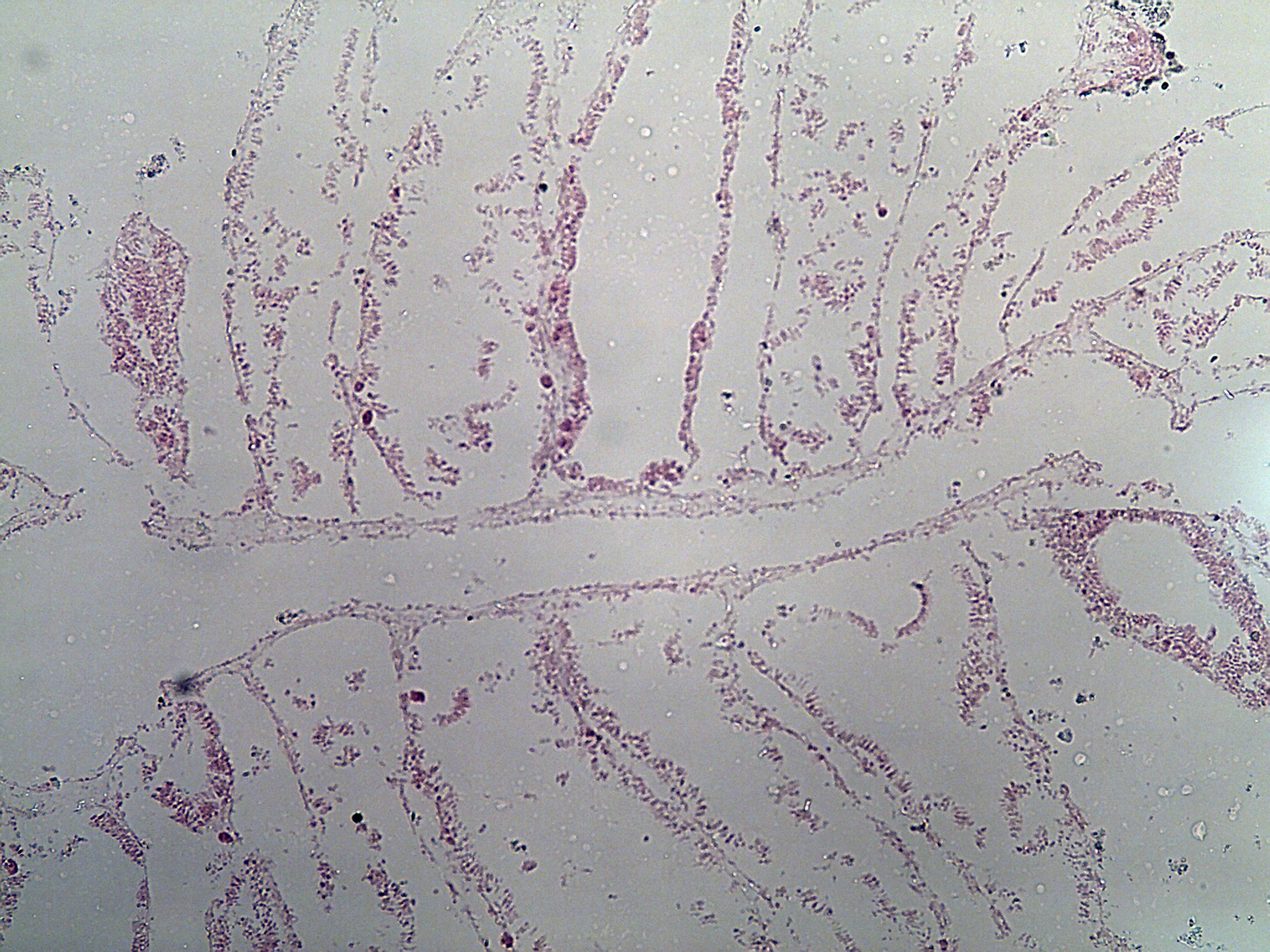 Cross section through the sponge, Grantia, showing the spongocoel and canal structure.